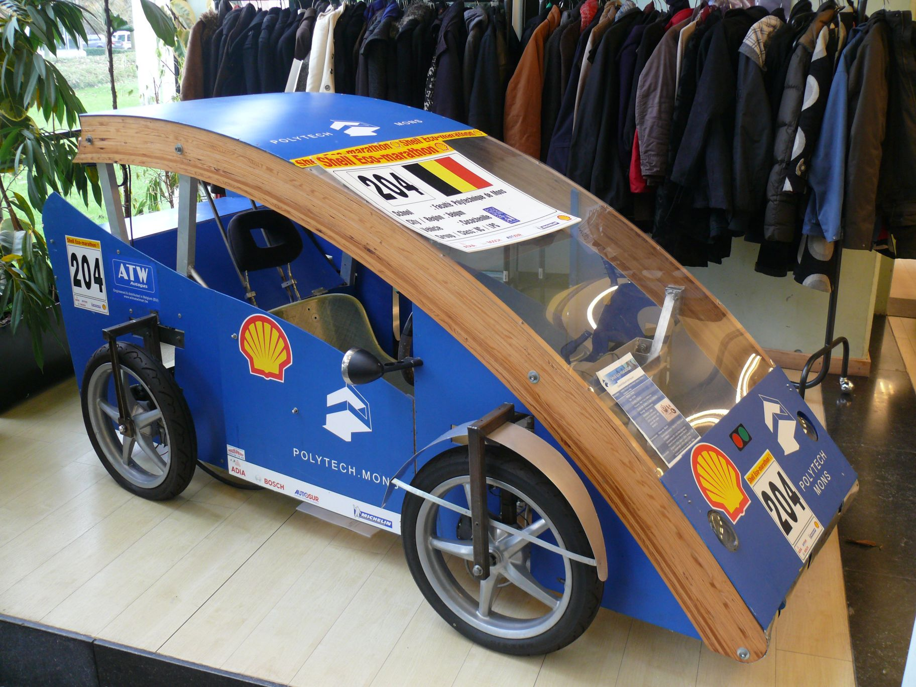 Candidate car for the Shell Eco-marathon at the Faculté polytechnique of Mons (Belgique).